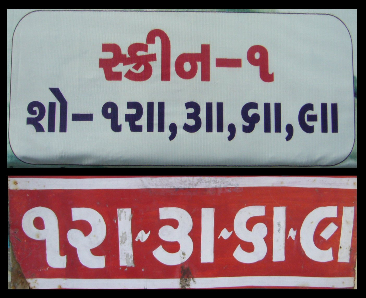 Cinema show times in Navsari, Gujarat, written in Gujarati.